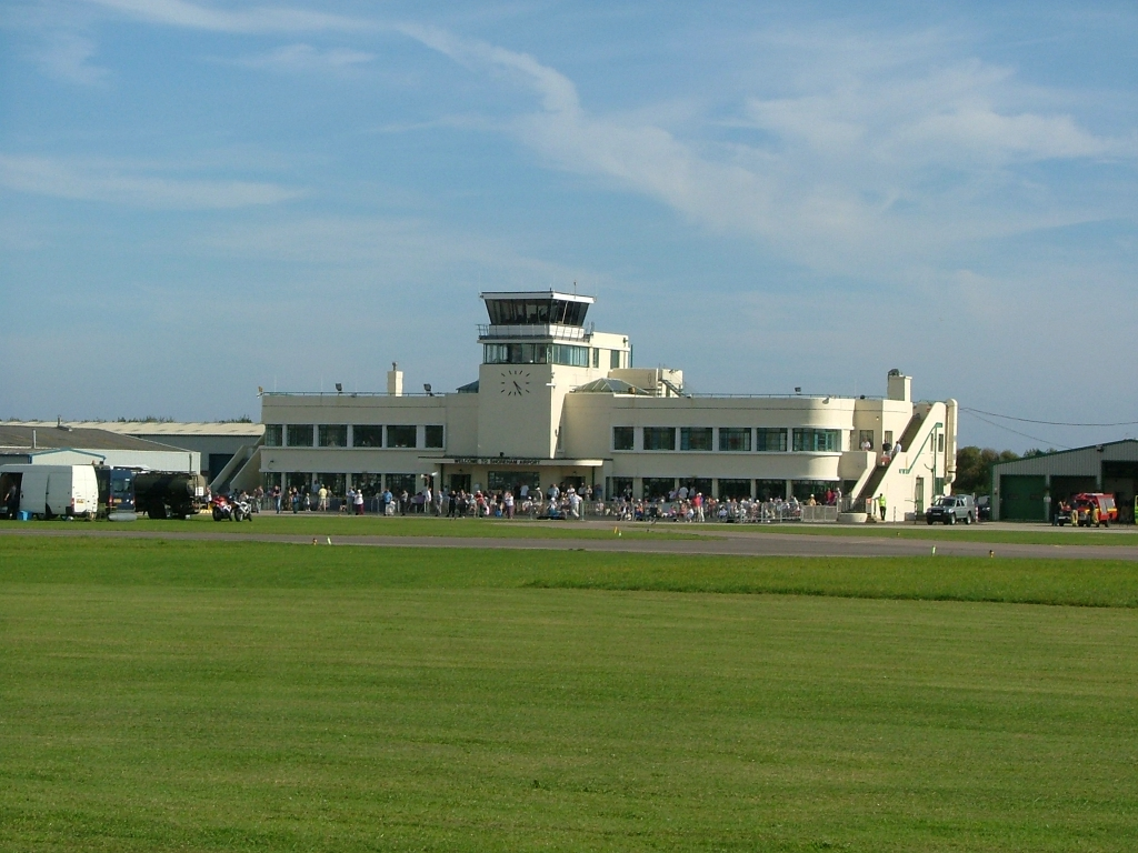 Shoreham (Brighton City) Airport terminal